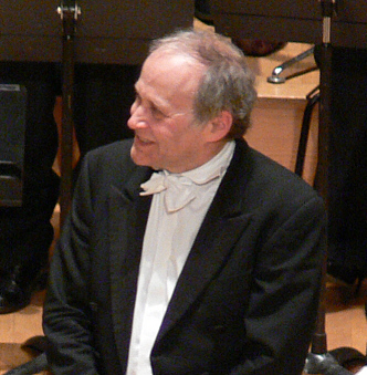 Adam Fischer, conductor